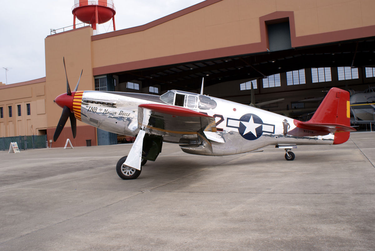 North_American_P-51C-10-NT_Mustang_Ina_the_Macon_Belle_Outside_LSide_FOF_19Feb2010